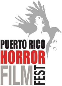 This is the Official Logo of the Puerto Rico Horror Film Festival The page to use this logo is still under construction.